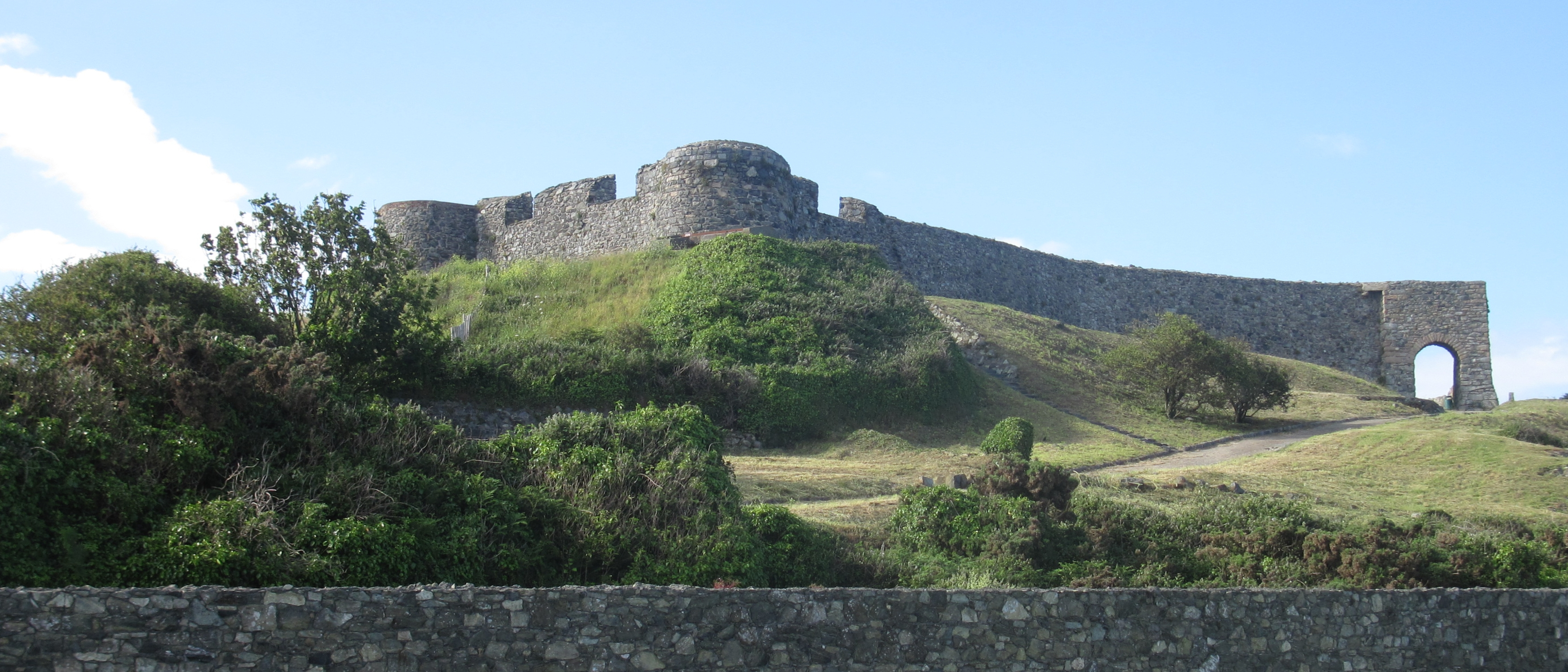 Vale, Guernsey Nrf: Lé Vale, Guernési